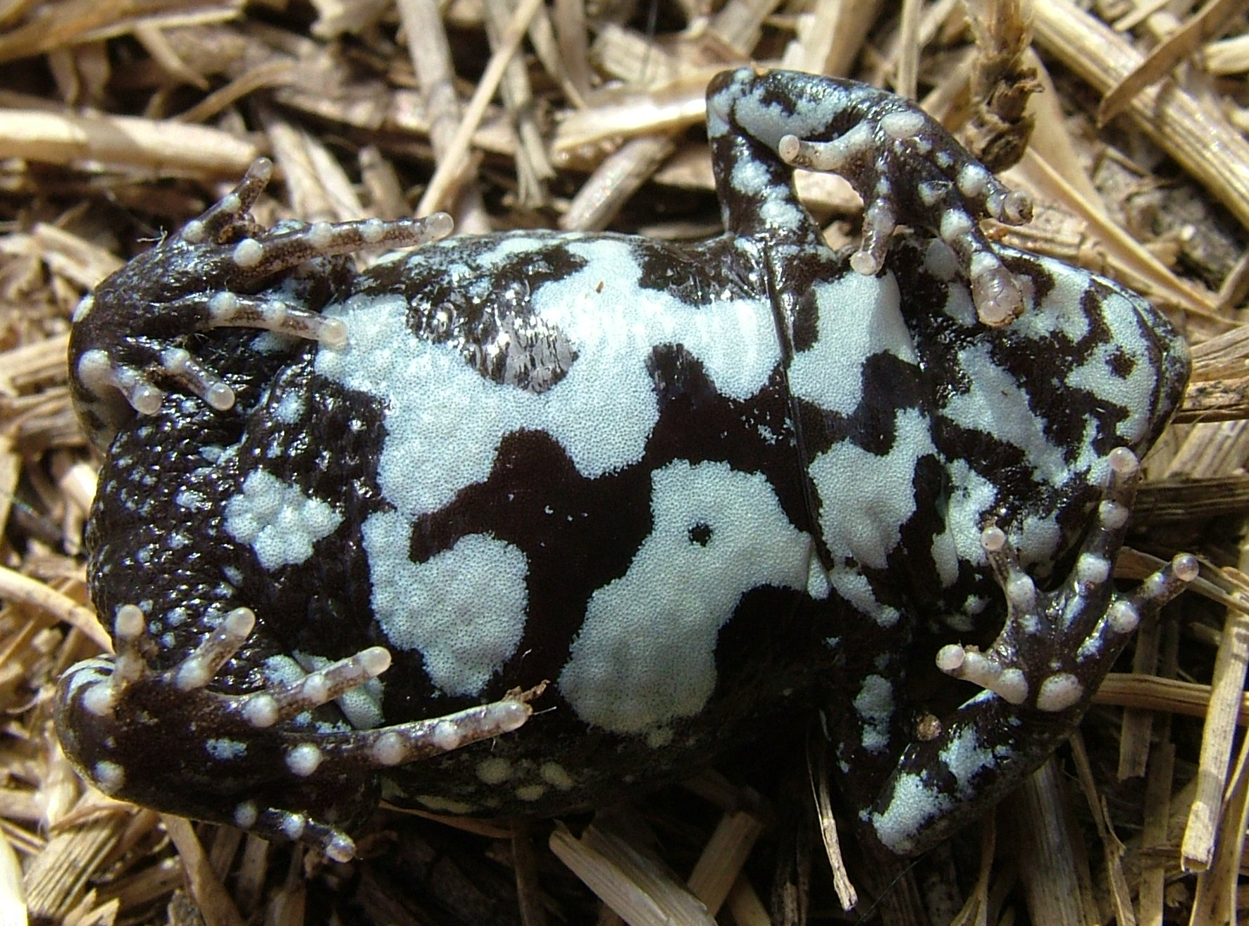 Ventral surface of the Large Toadlet (Pseudophryne major)